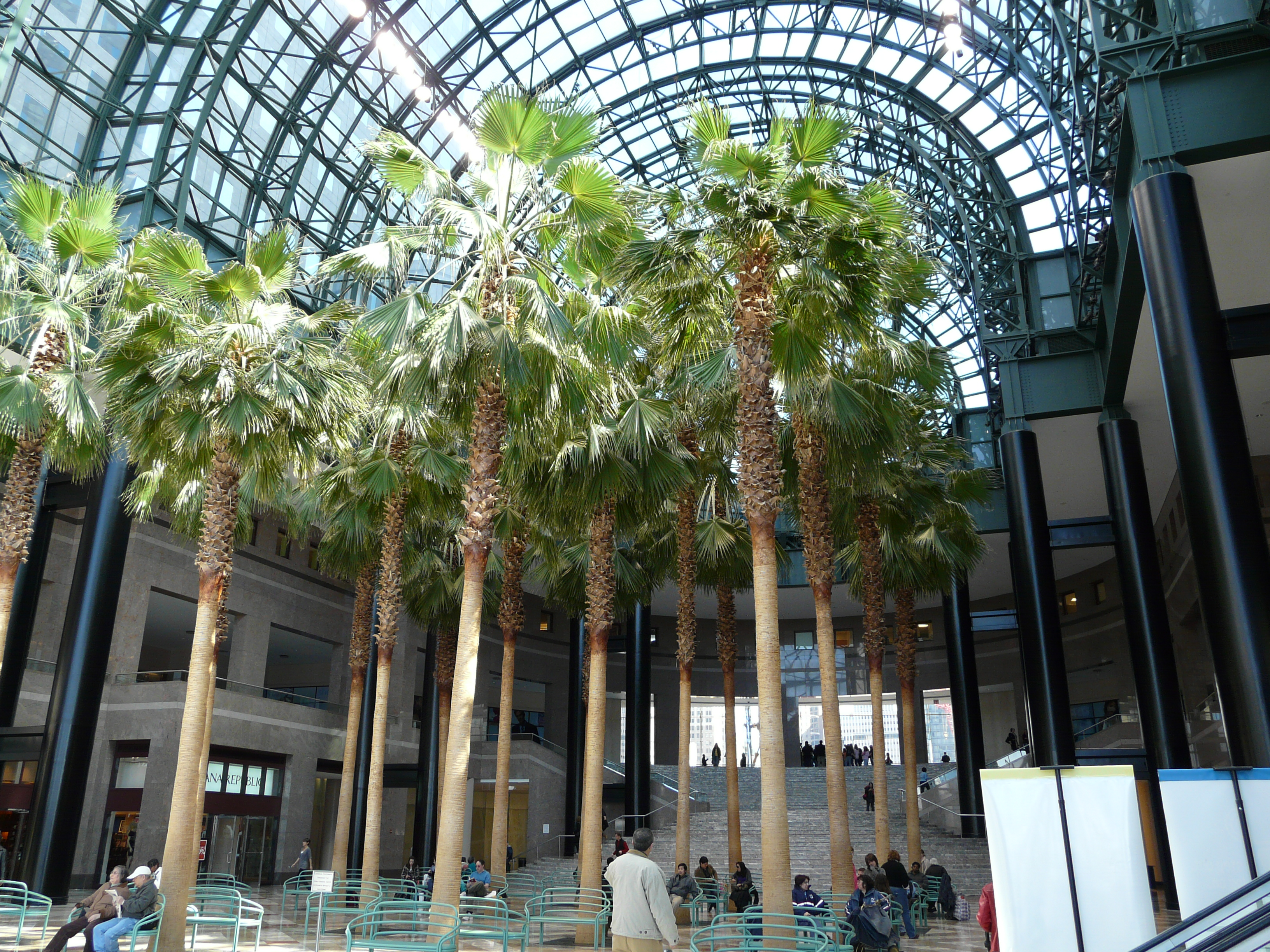 New York